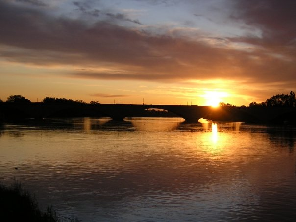 Sunset on Ticino river, Pavia, Italy